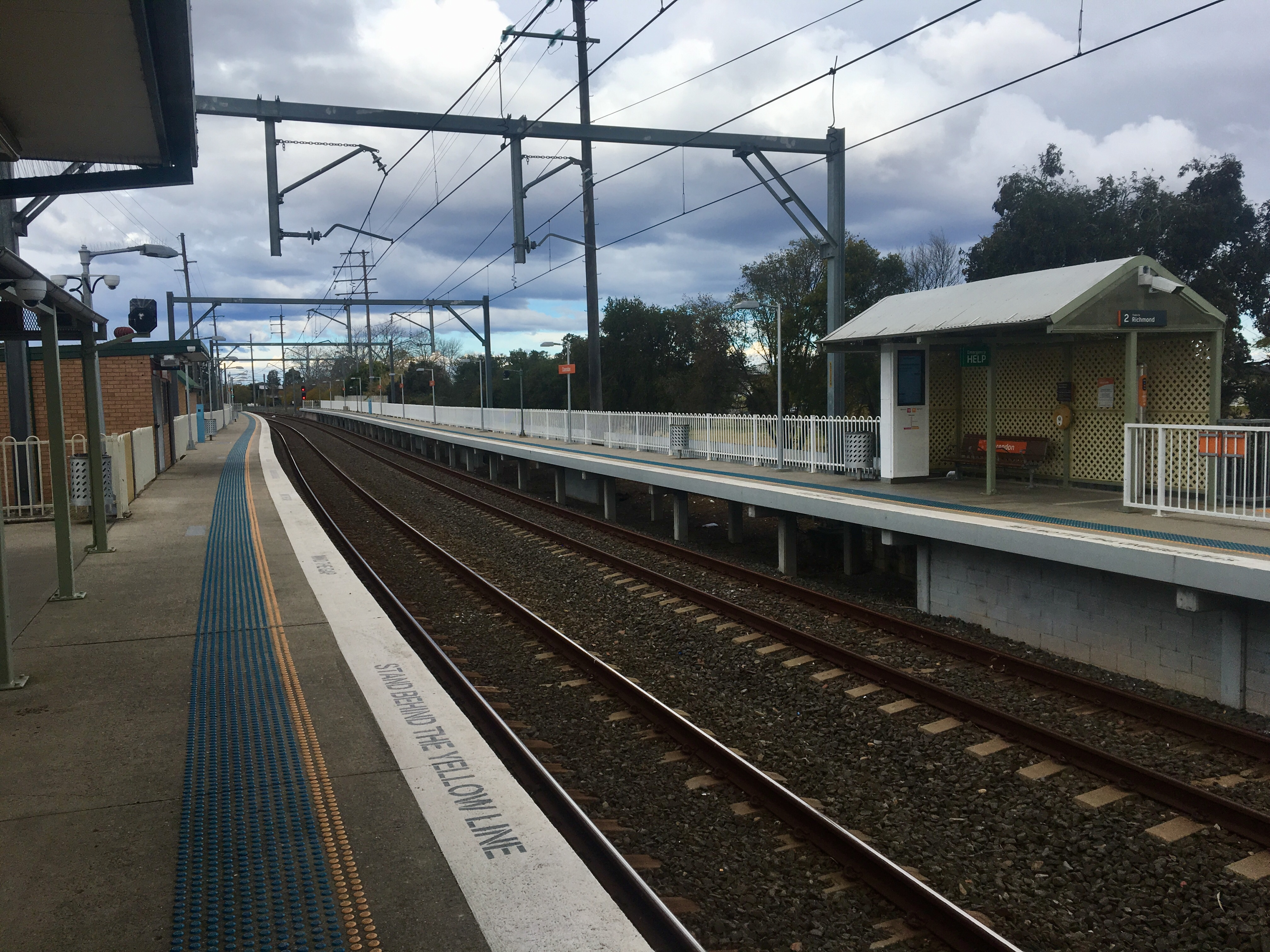 Clarendon railway station